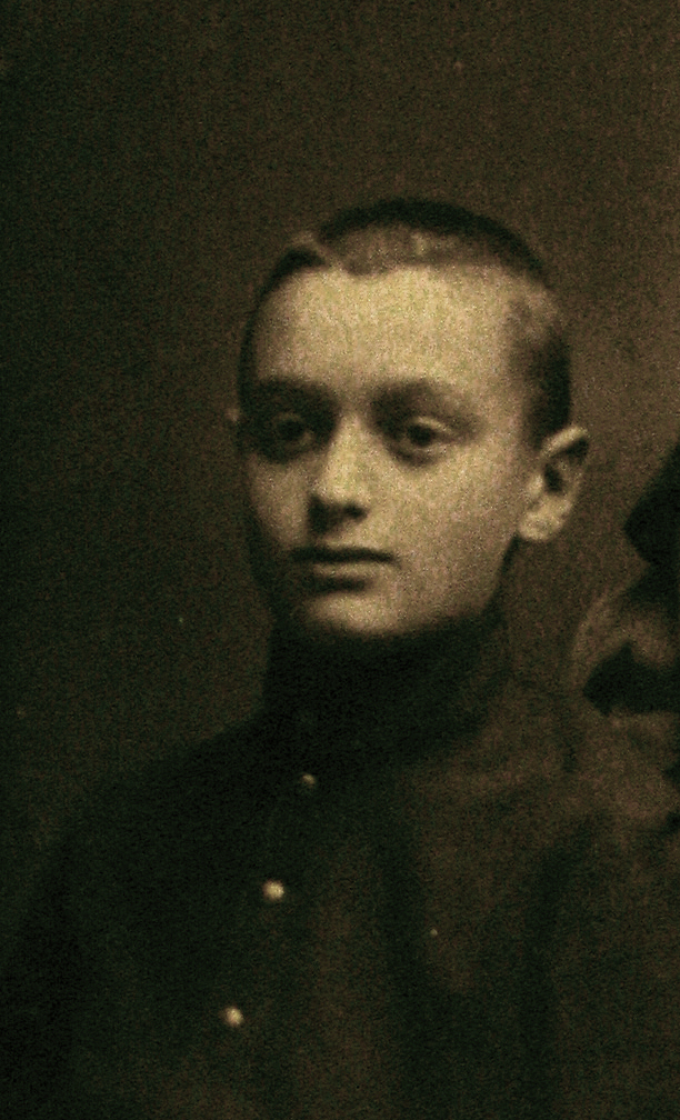 Mikhail Lifshitz, 1915.